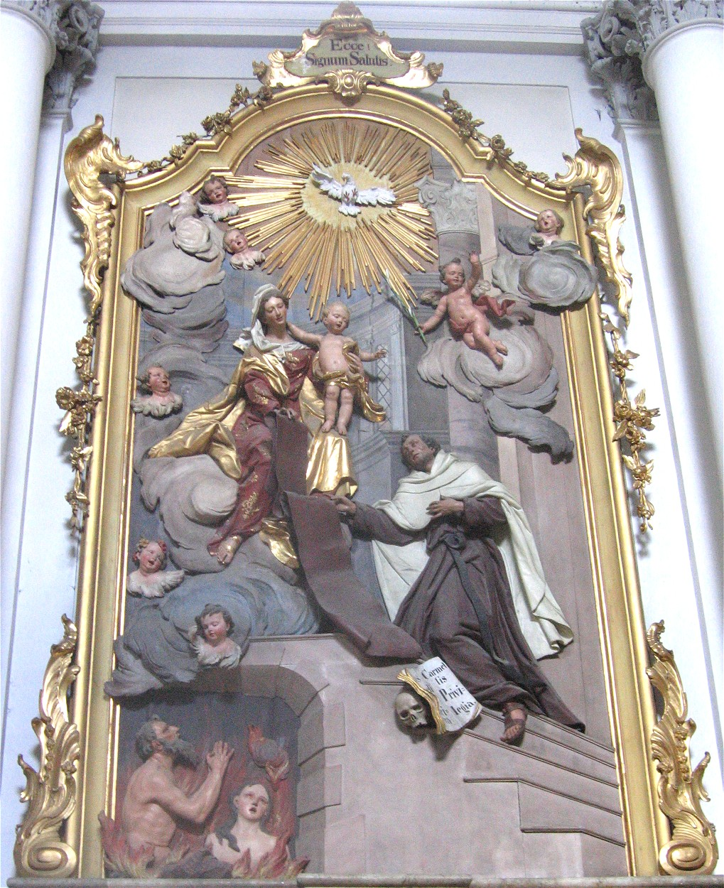 Reisach (municipality of Oberaudorf), Church of Saint Theresa and John of the Cross of the Carmelite monastery. Altar of the Scapular by Johann Baptist Straub on the western wall of the nave.